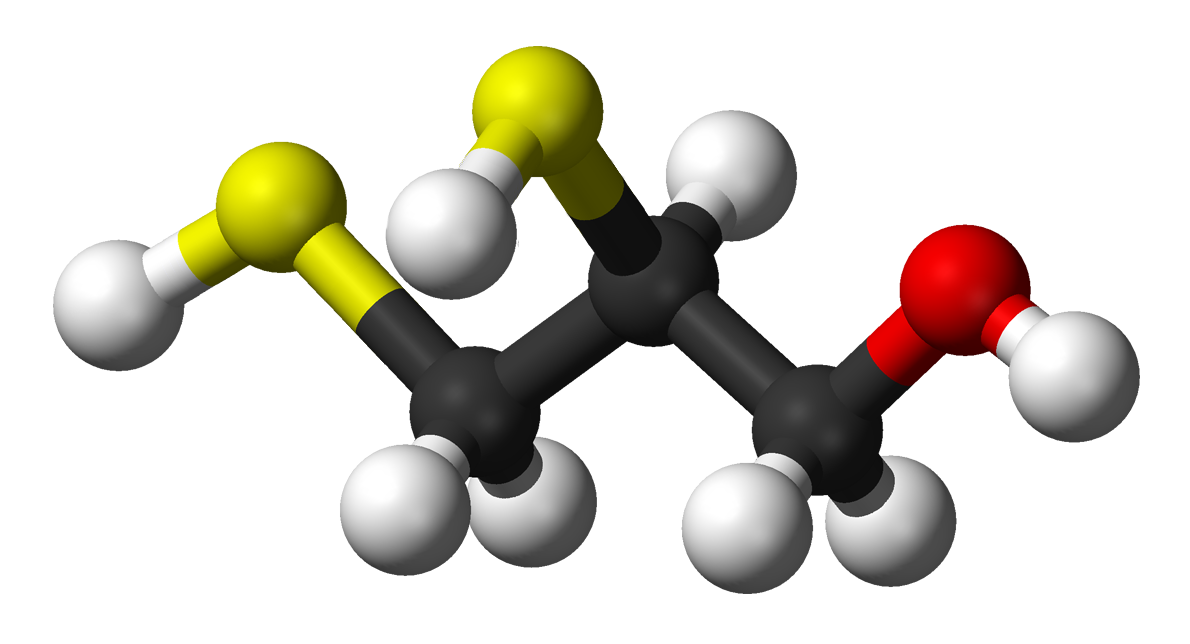 Ball and stick model of the dimercaprol molecule.